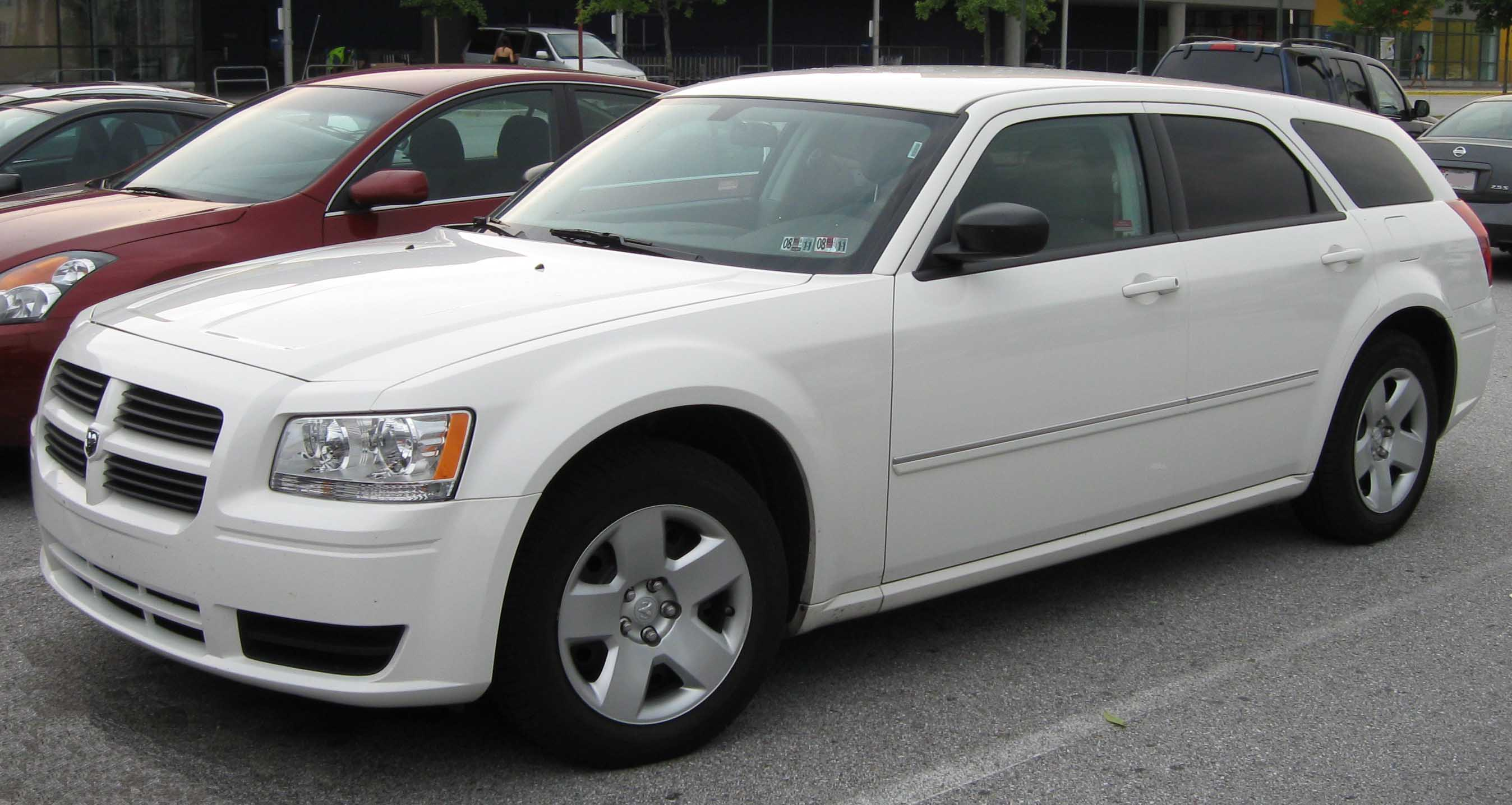 2008 Dodge Magnum photographed in College Park, Maryland, USA.